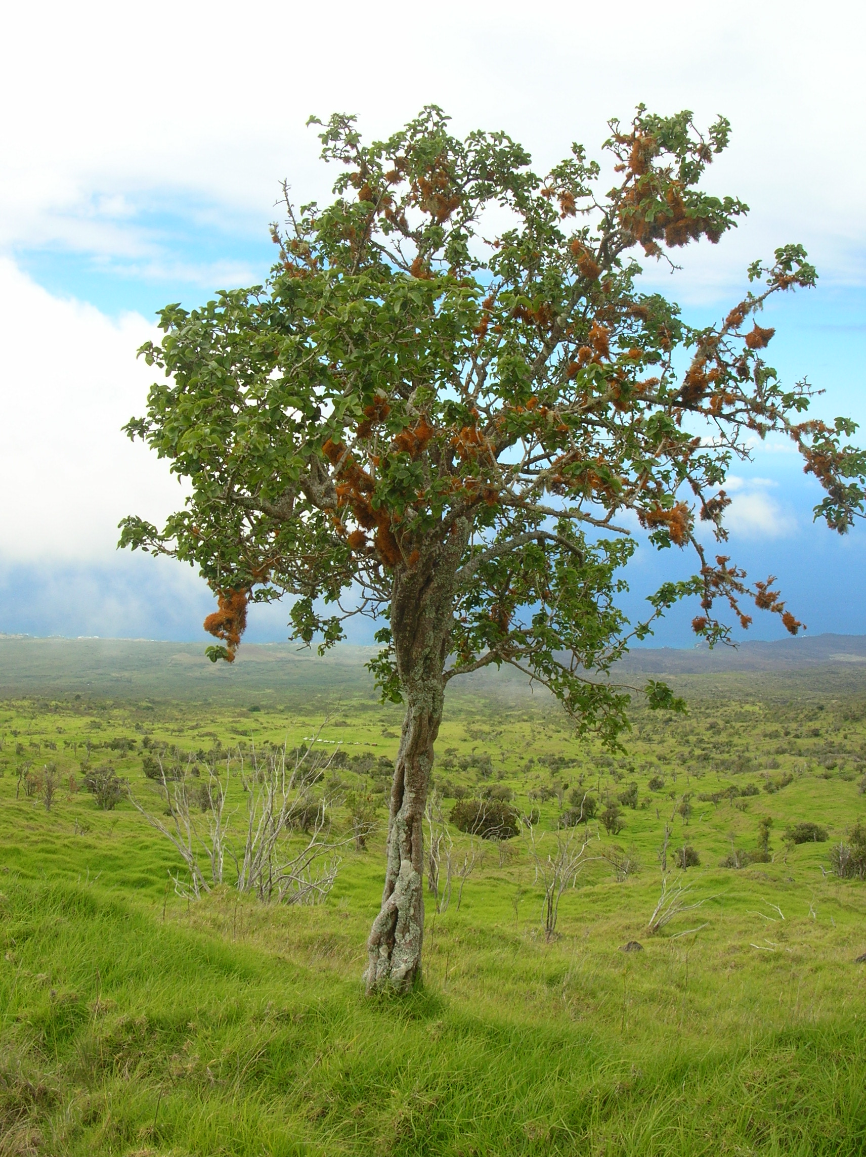 Nothocestrum latifolium (habit). Location: Maui, Auwahi